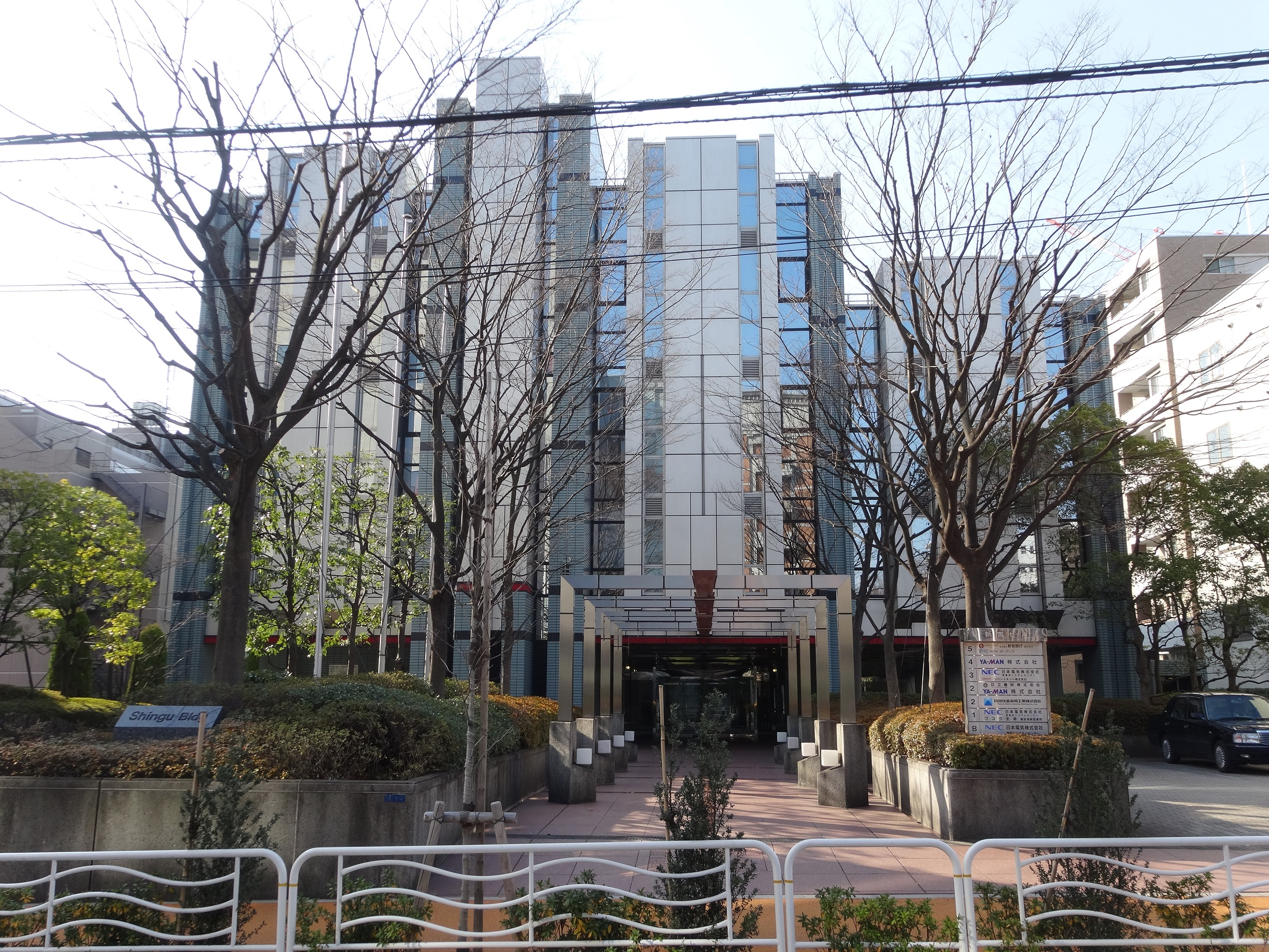 Shingu Building(Koto-ku,Tokyo,Japan) NipponSteel&Sumikin Welding the head office is in this building.